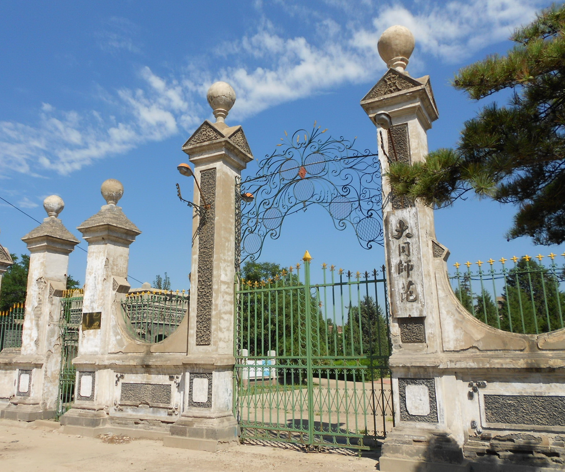 The Shanxi Third Middle School, Gate